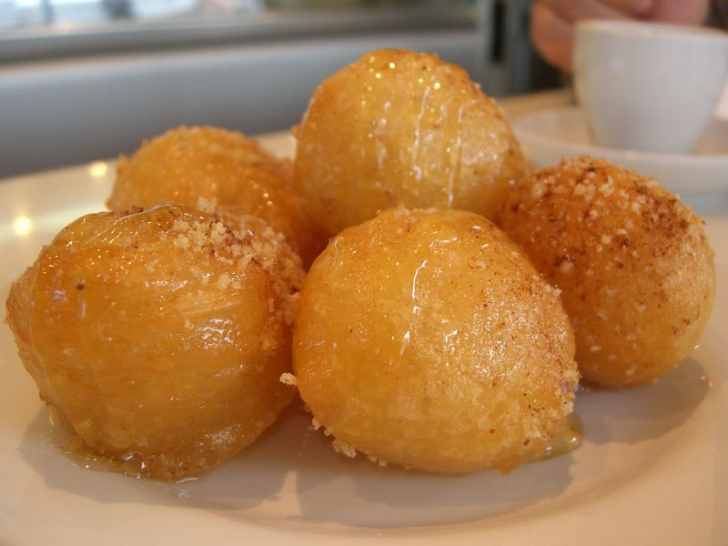 Lokoumades, a type of deep fried Greek pastry.